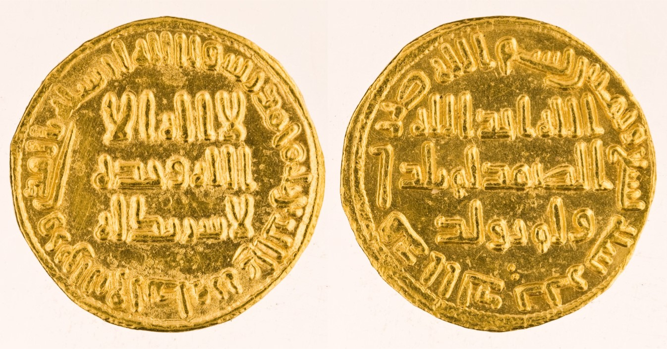 The obverse and reverse of a gold dinar minted in Damascus in the name of the Umayyad Caliph al-Walid I, 707/08 CE